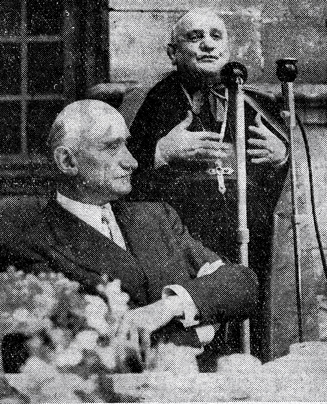 French Minister for Foreign Affairs Robert Schuman listening to Nunce Angelo Roncalli (later Pope John XXIII) at Luxeuil in July 1950.